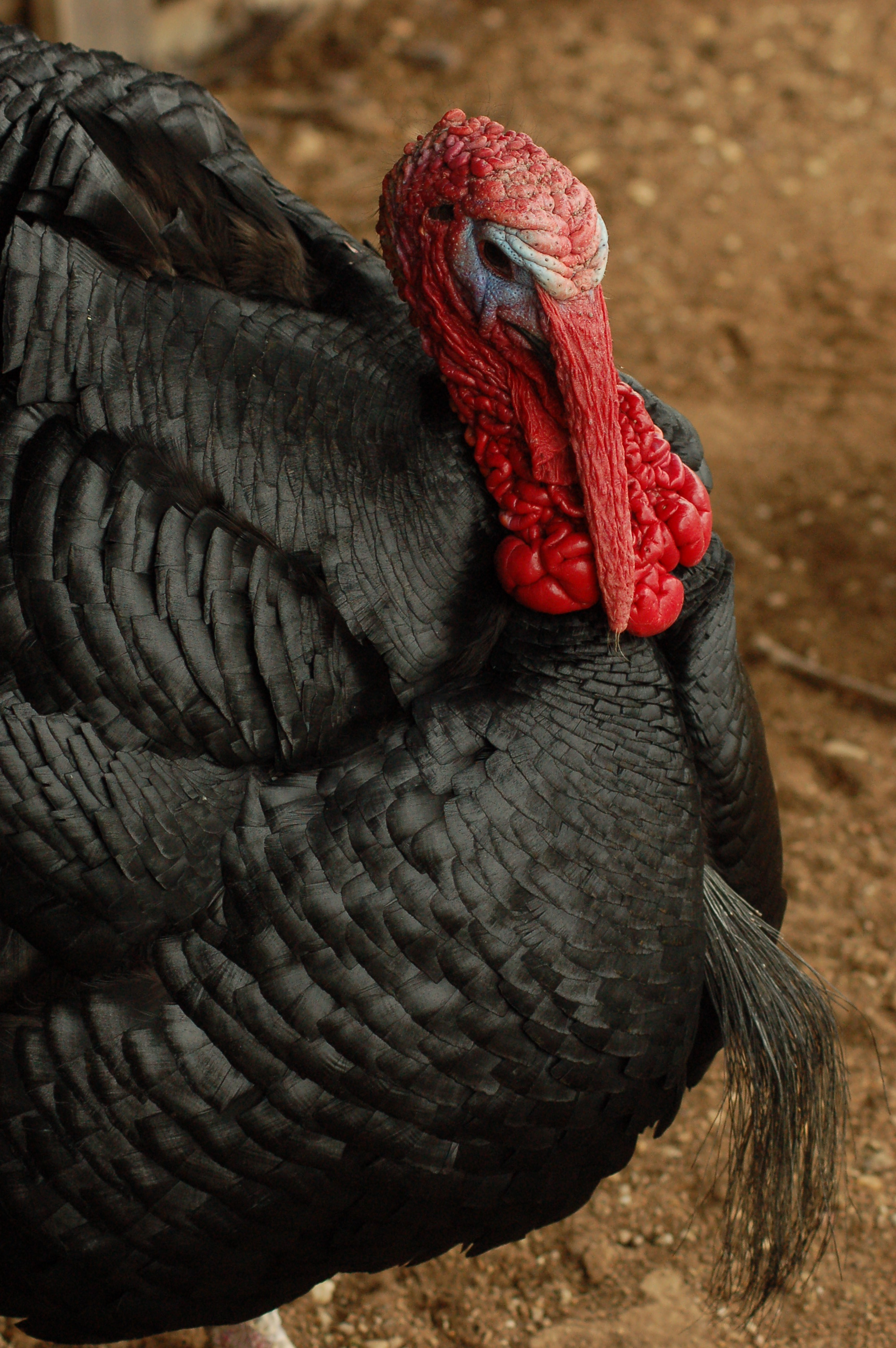 A Black Spanish turkey tom at the National Colonial Farm at Piscataway Park.